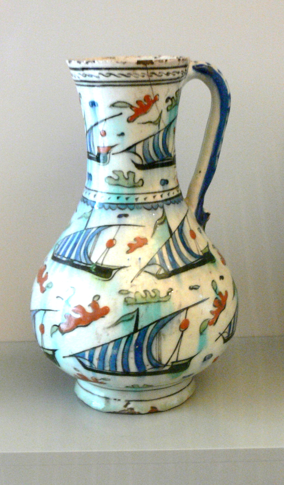 Museum of Islamic Art ( Berlin ). Jug with sailing ships ( 16th century ), from Iznik ( Turkey ), Inv.Nr KGM 1883,3.